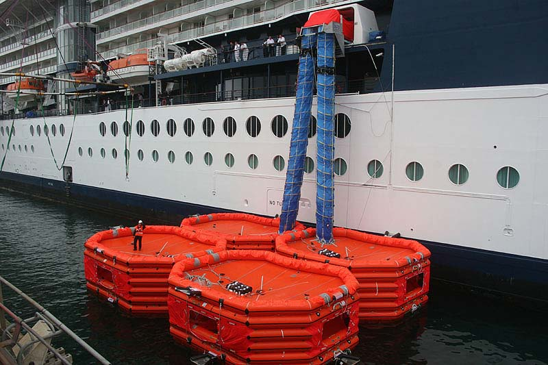 Lifeboats being tested on the passenger ship Constellation : we can see inflatable and self-righting rafts, with chutes allowing safe escape into them.